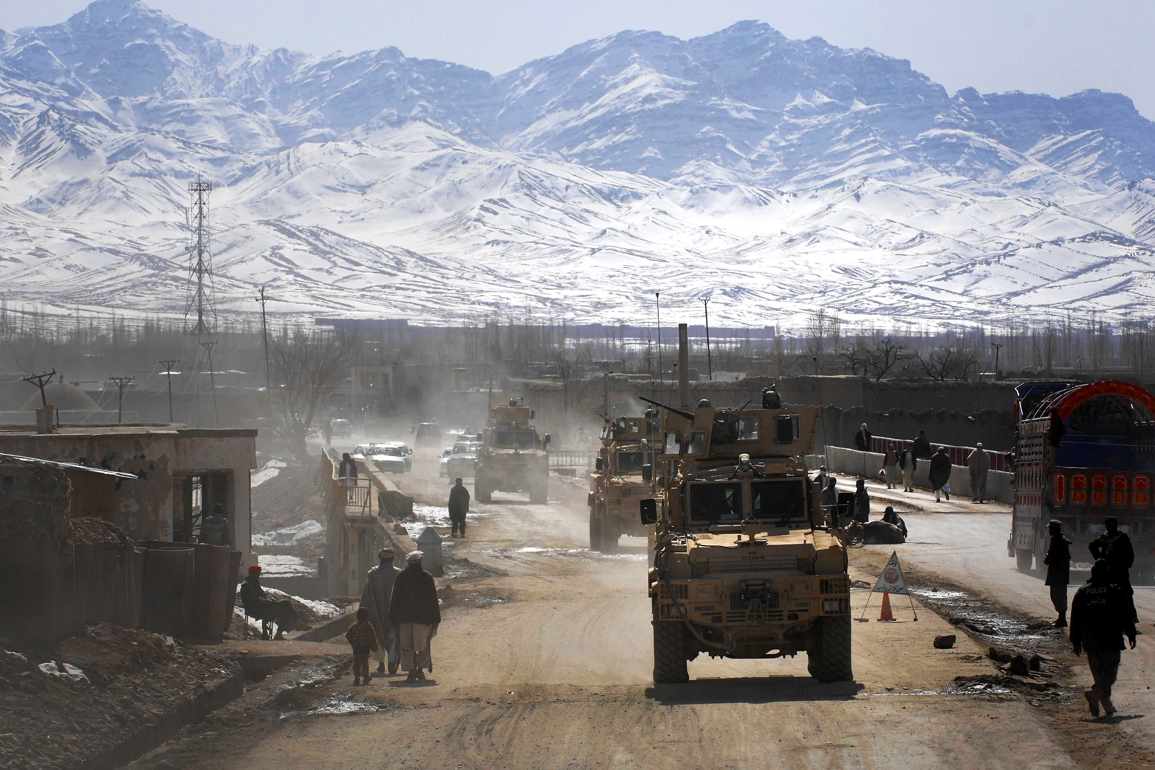 U.S. Army soldiers drive a convoy into Gardez City, Afghanistan, the Paktia provincial capital, to meet with local officials, Feb. 17, 2009. The soldiers are assigned to 1st Battalion, 178th Infantry Regiment.